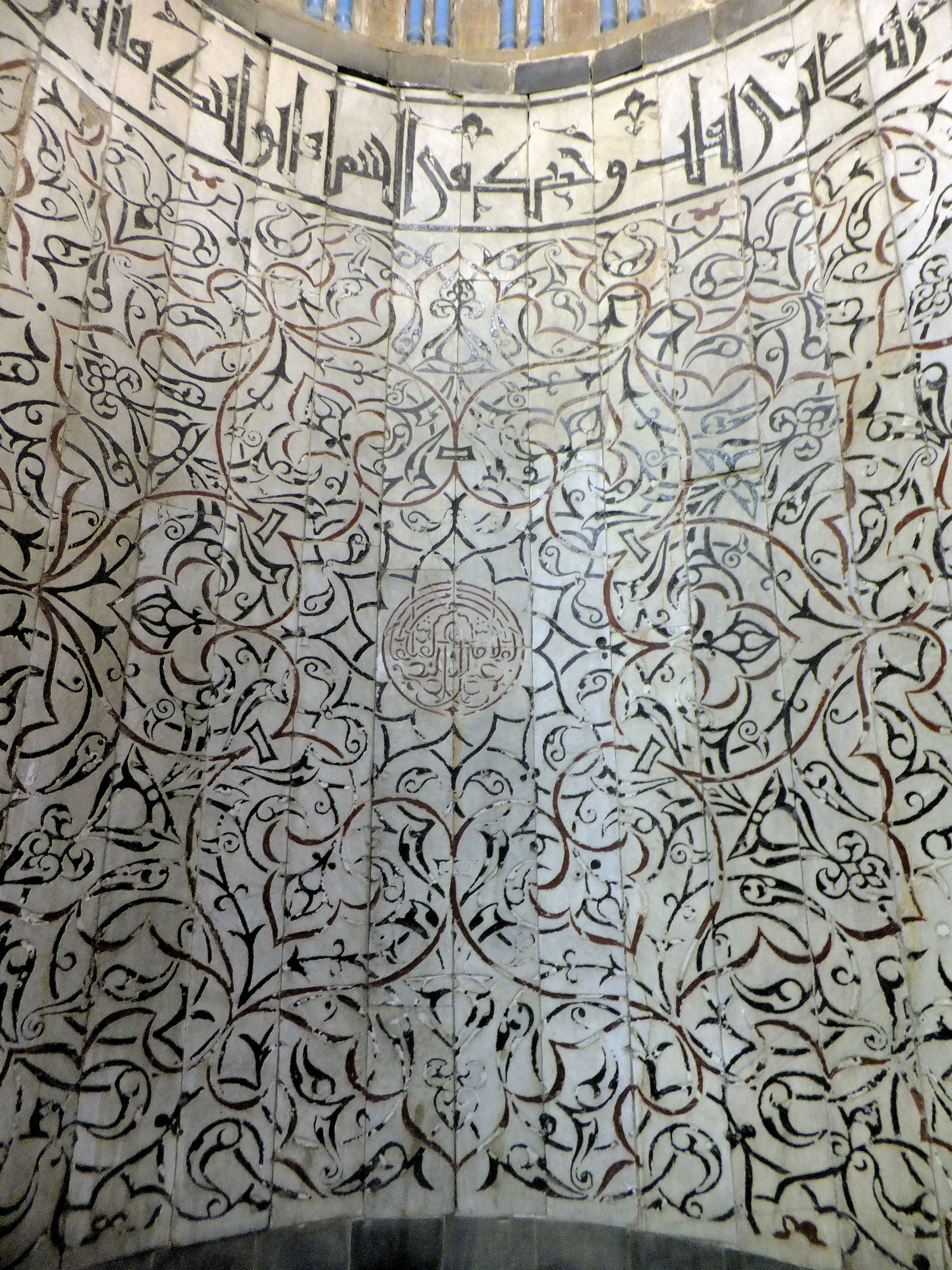 Close-up of the mihrab of the Mosque of Qijmas al-Ishaqi, showing the white marble inlaid with black paste to form fine arabesque patterns. At the middle, inside the central rosette, is the signature of the craftsman, 'Abd al-Qadir al-Naqqash (the Engraver). Above is a Qur'anic inscription in Kufic letters.